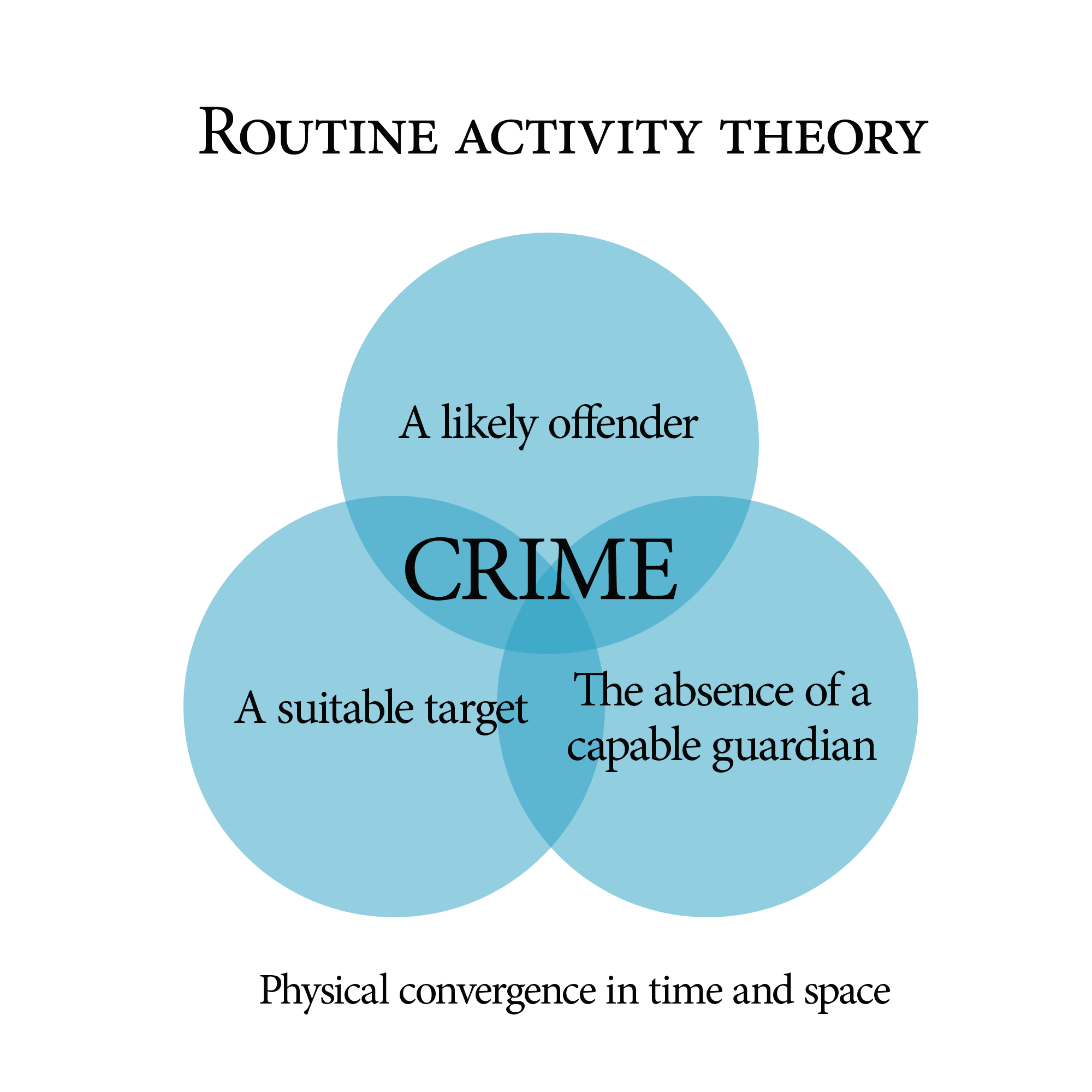 A graphical model of the Routine activity theory developed by Marcus Felson and Lawrence E. Cohen. The routine activity theory stipulates three nececassary conditions for most crime; a likely offender, a suitable target, and the absence of a capable guardian, coming together in time and space. In other words: for a crime to occour, a likely offender must find a suitable target with capable guardians absent.